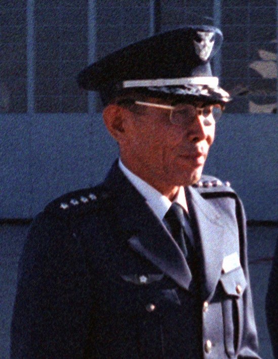 General Osamu Namatame, Chief of Staff, Japan Air Self Defense Force.